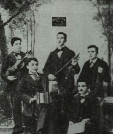 Stamen Panchev with his classmates in Kyustendil